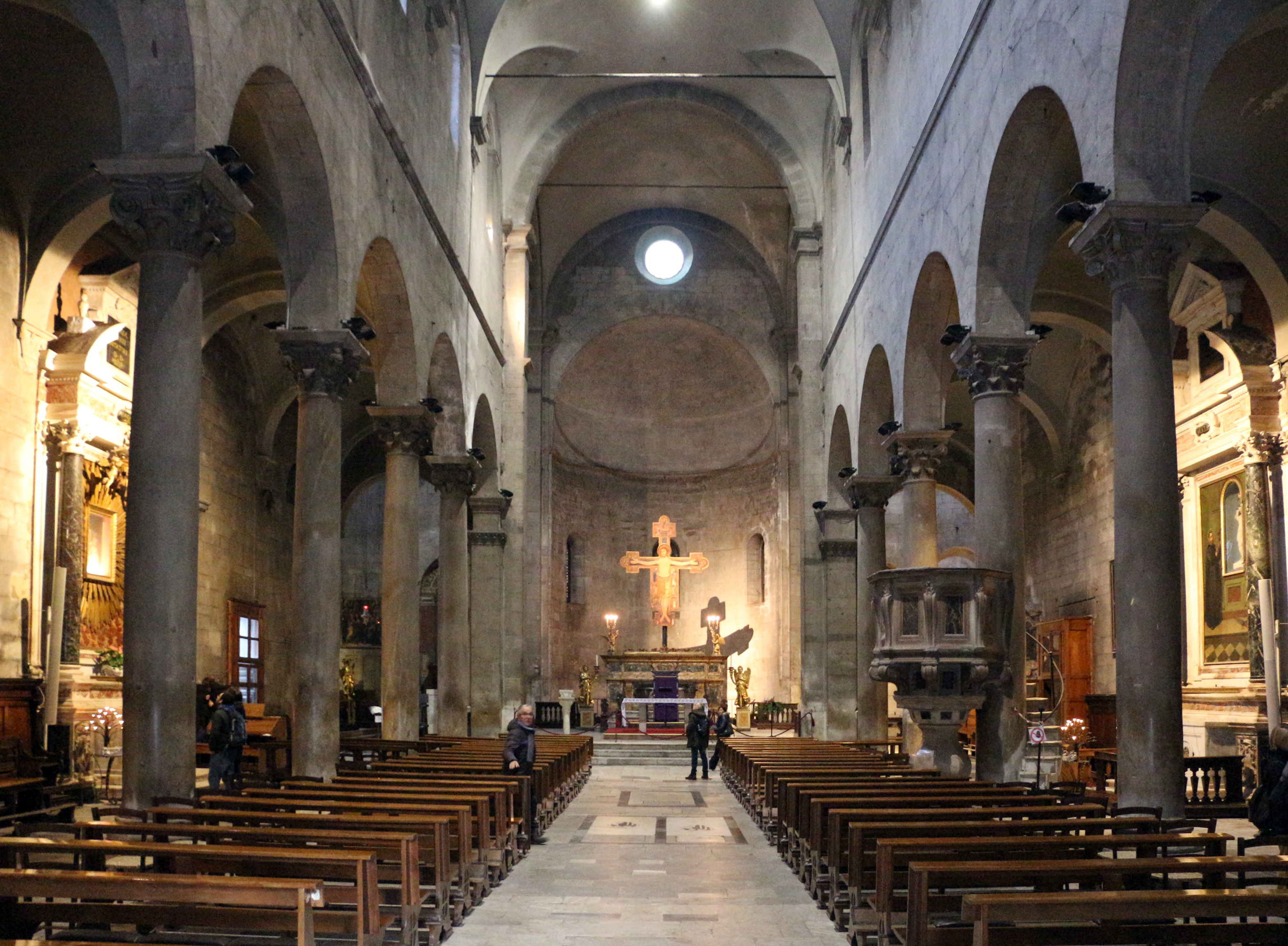 San Michele in Foro (Lucca)